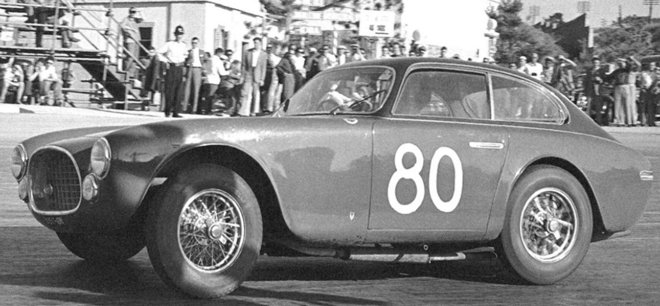 Entry #80 in the Trieste-Opicina hillclimb on 15 June 1952 was the 1952 Ferrari 212 S Vignale Berlinetta s/n 0170ET driven by Raffaele Caraceni (owner was Dr. Augusto Caraceni) of Roma.[1]